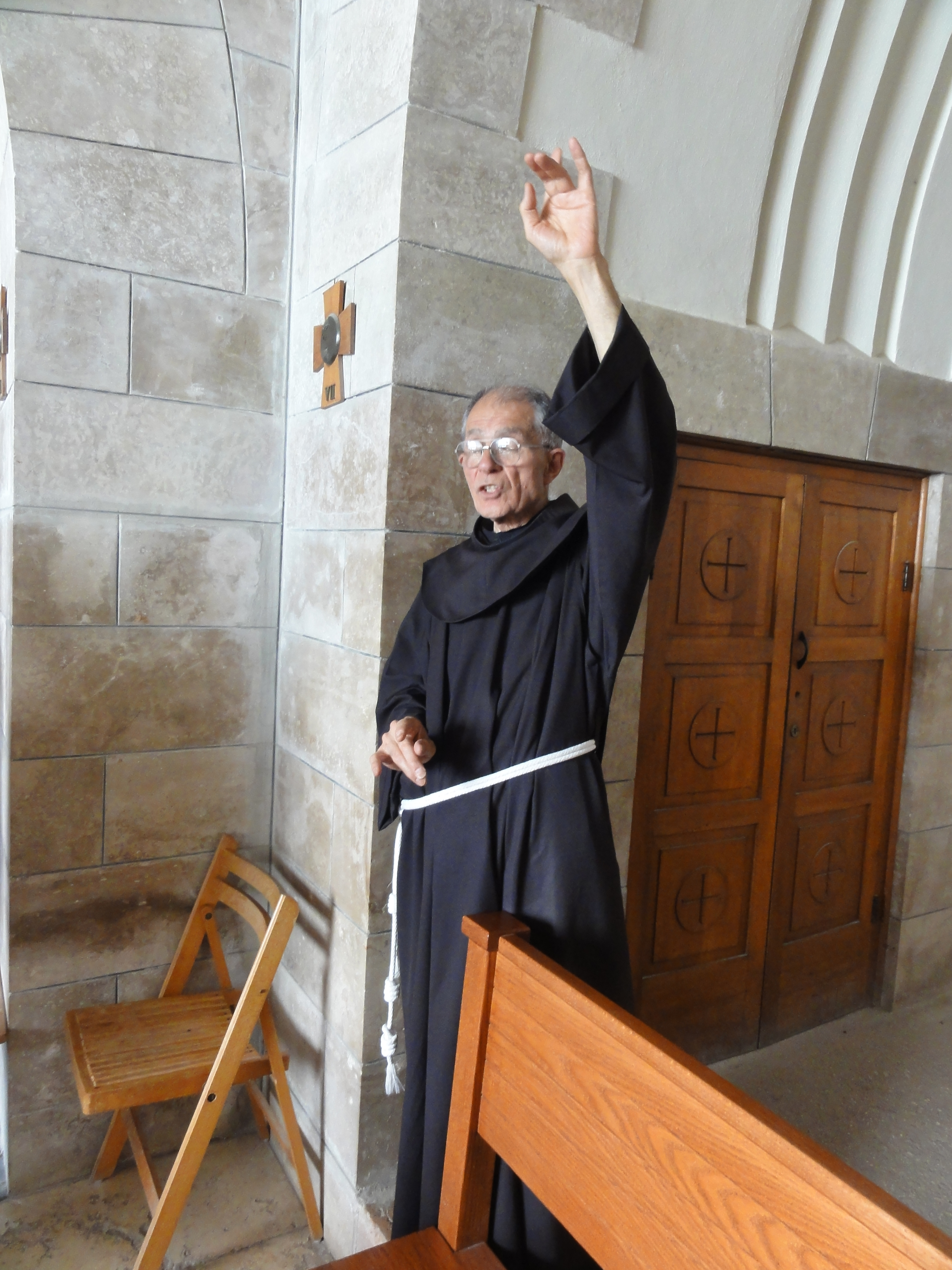 Dominus Flevit Church - Priest guiding through the church building. Info GPS data may be inaccurate. EXIF data regarding date and time may be inaccurate.